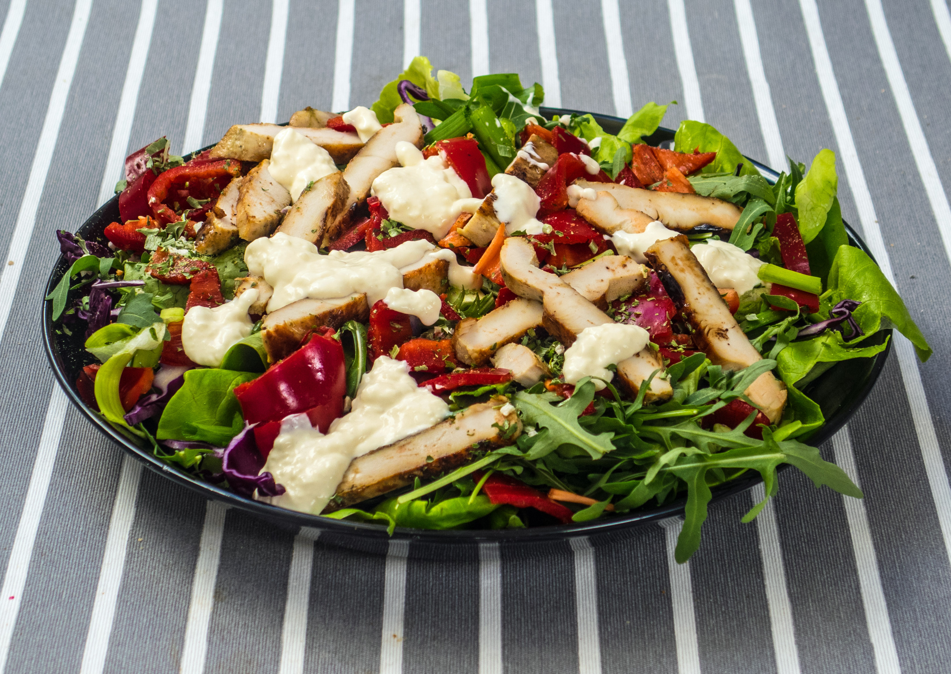 Mixed salad with chicken slices on a black plate on striped grey tablecloth.